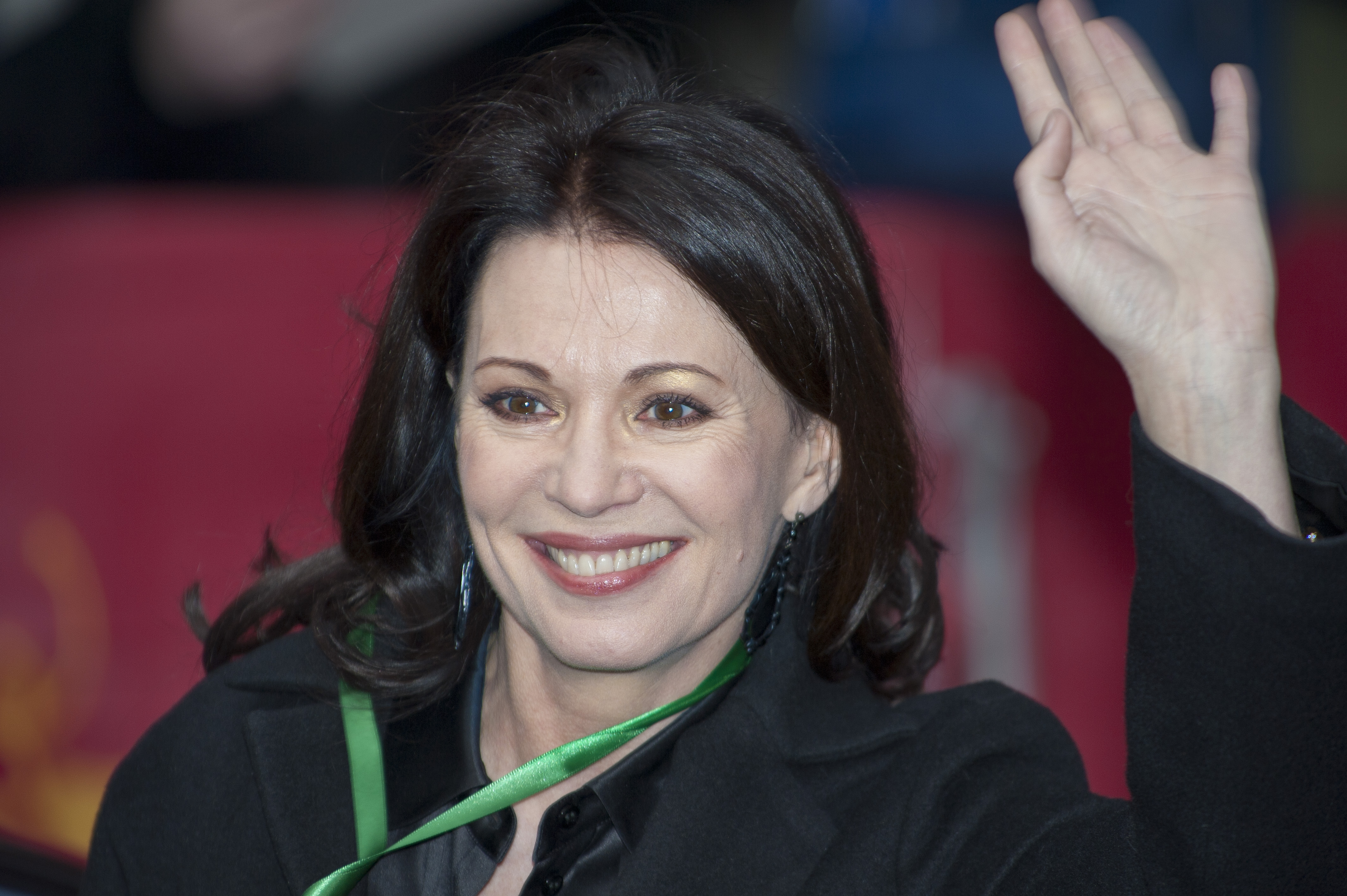 German actress Iris Berlin at the Berlin Film Festival 2011